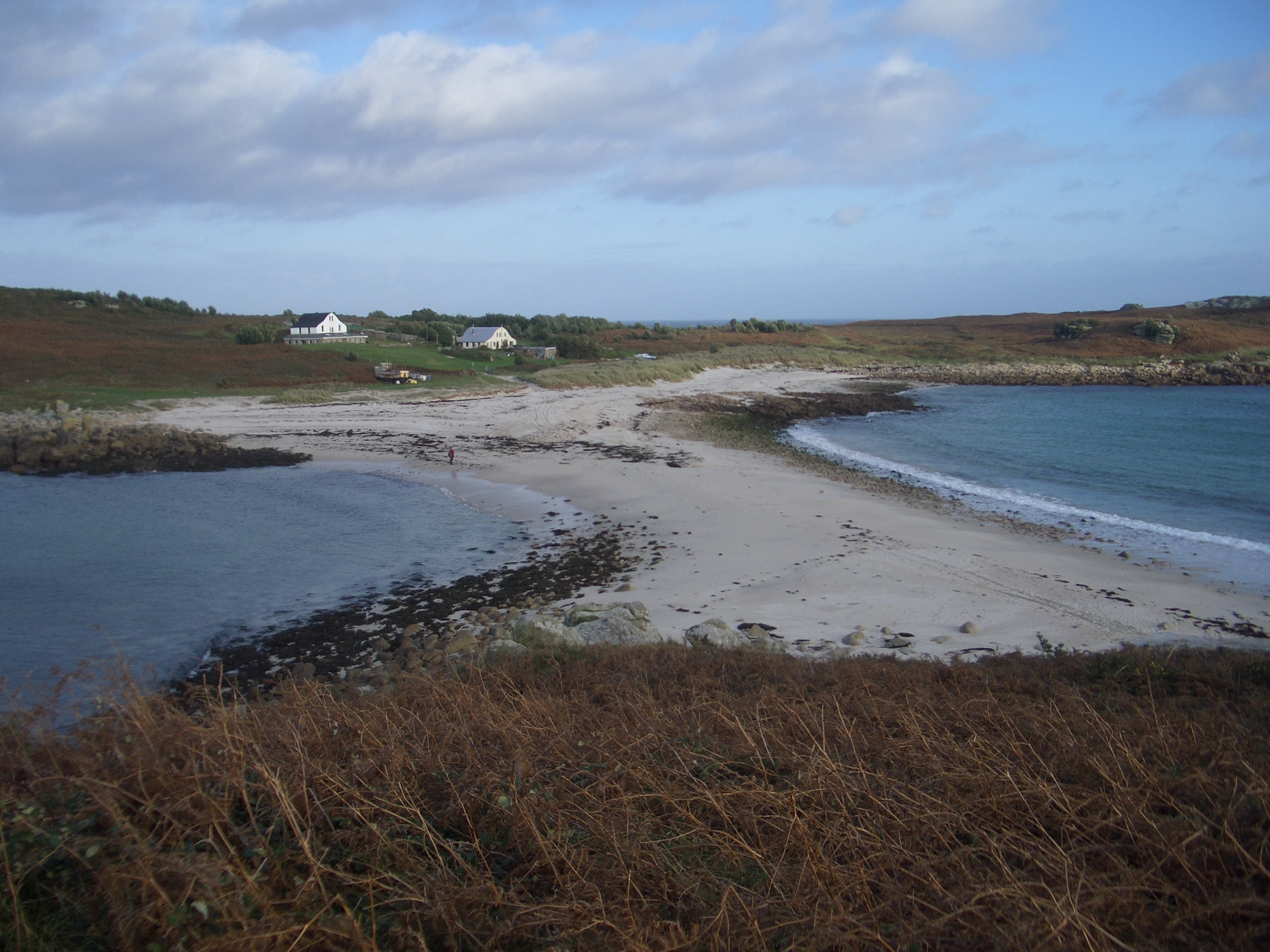 Sandbar between St. Agnes and Gugh on the Isles of Scilly off the coast of Cornwall.Kernowek: Ynys Keow